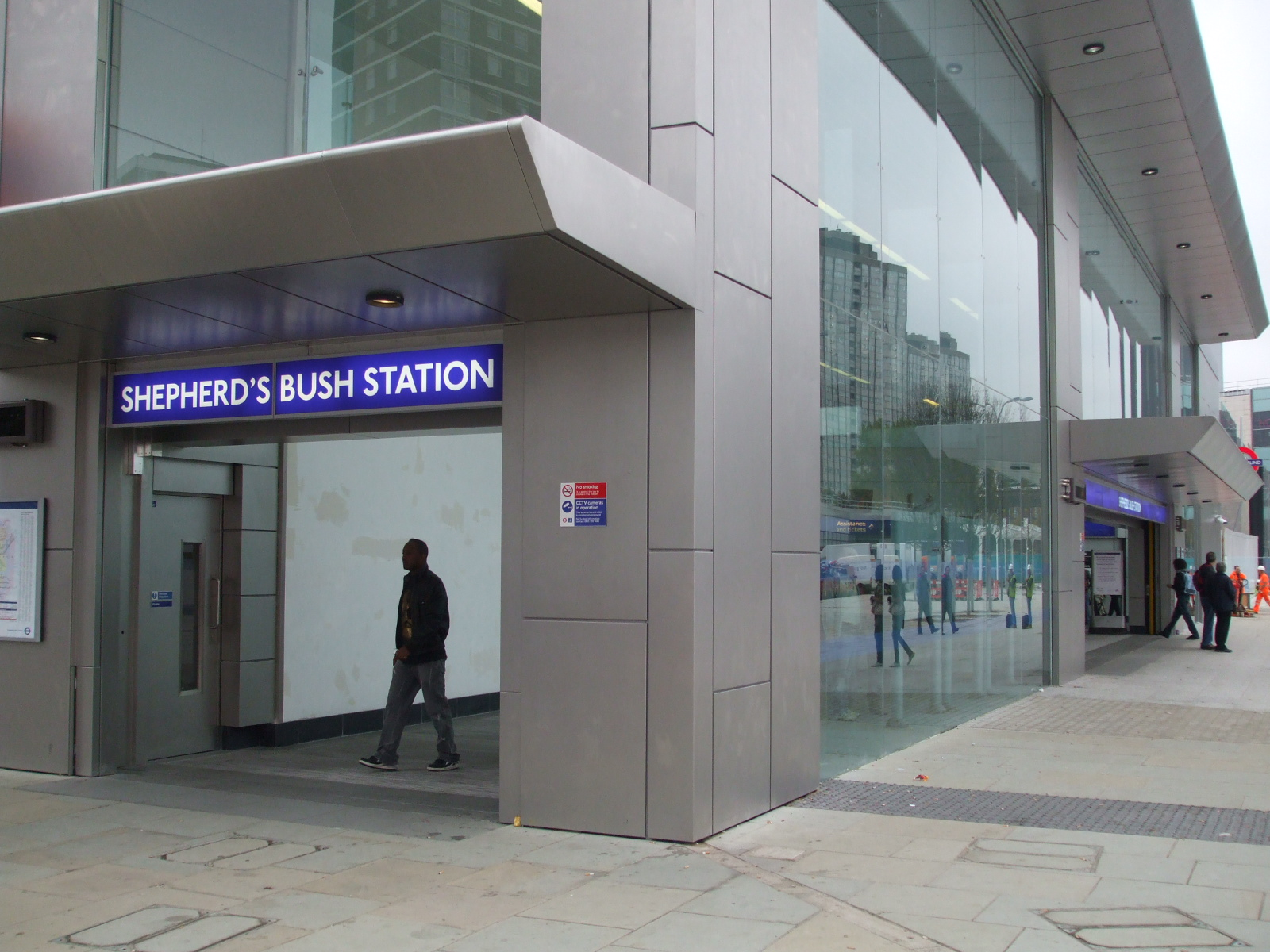 Shepherd's Bush tube station (Central line) building, southeastern corner, showing both entrances. Overground station just out of shot to the right.